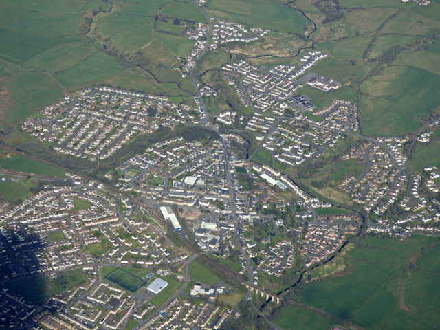 Stewarton from the air